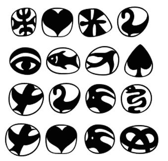 A series of symbols, designed by Frutiger as if drawn on pebbles. Inspired by Stone Age art.